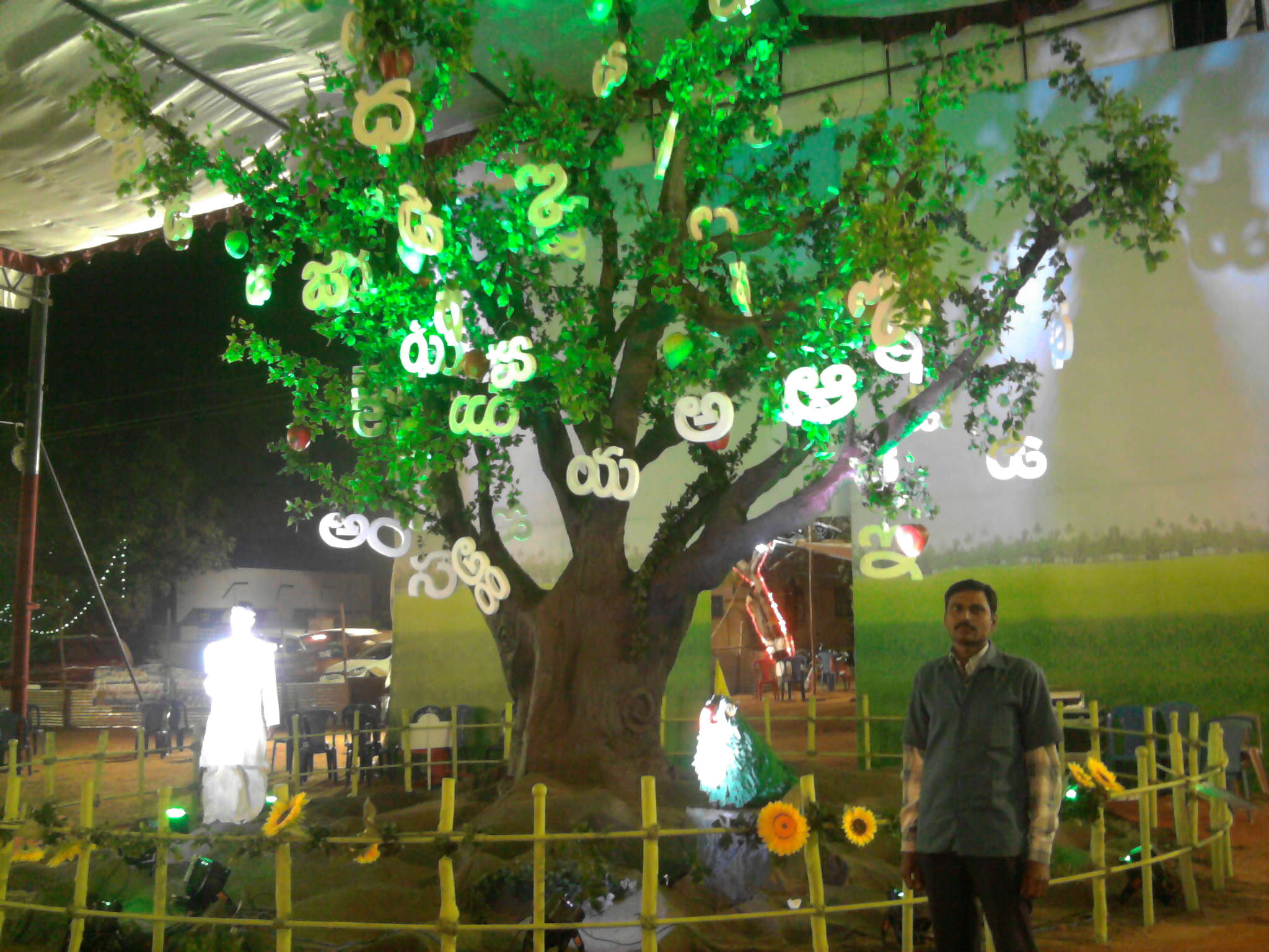 World Telugu Conference in Tirupati